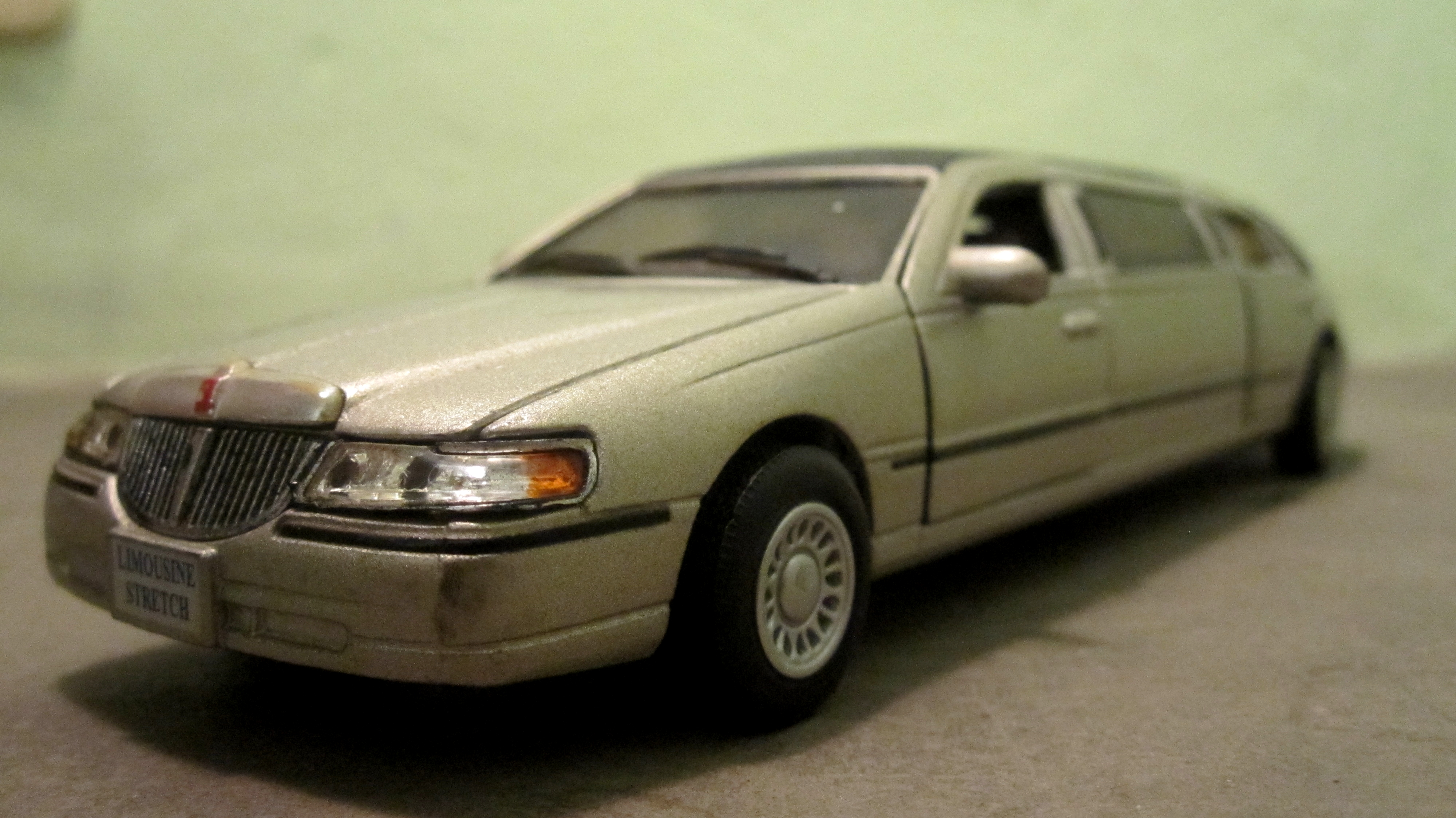 Kinsmart model car of a silver Lincoln Town Car (1998) stretch limousines (scale: 1/38)